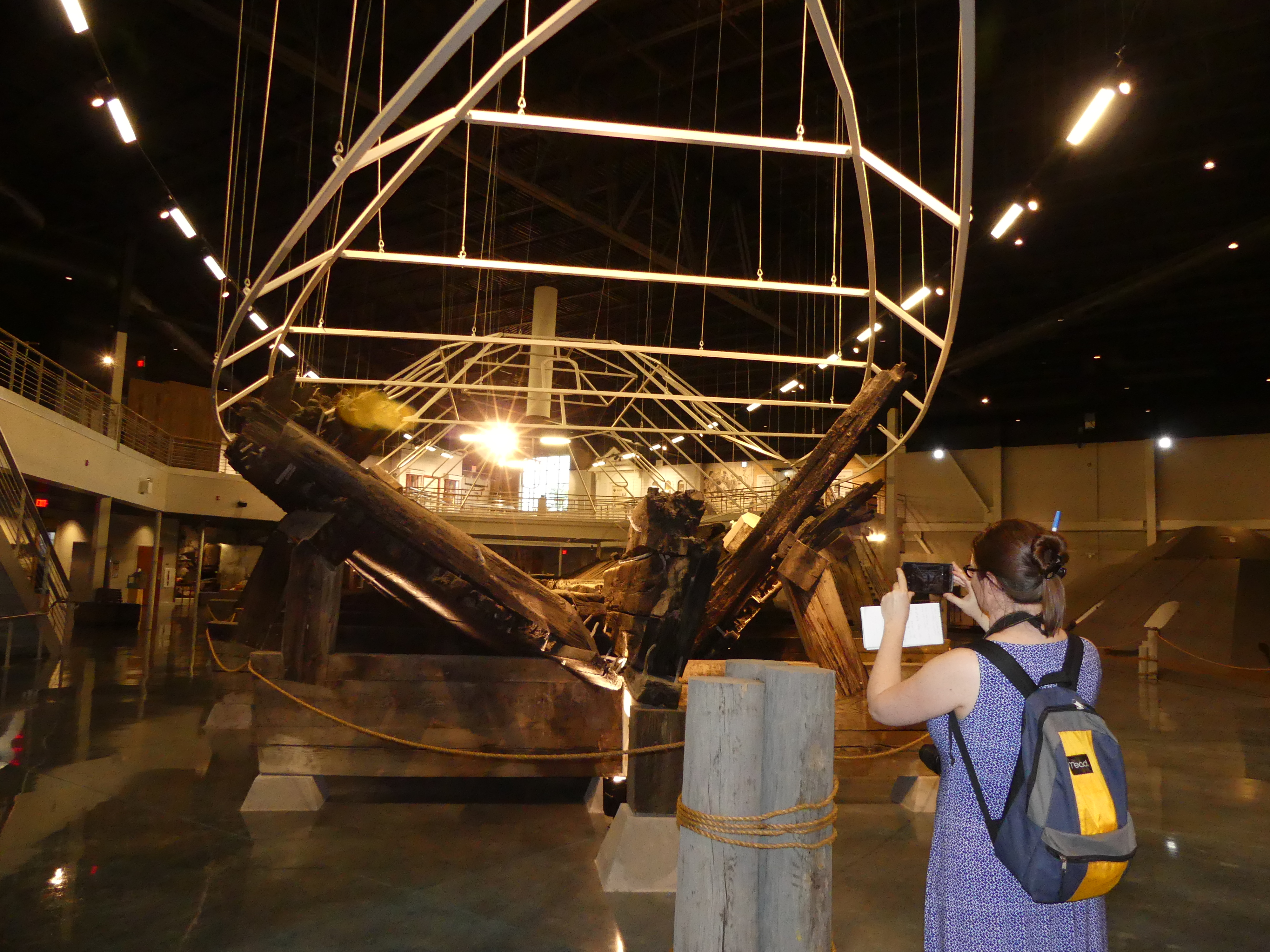 View of the actual CSS Neuse in Neuse Museum in Kinston, NC